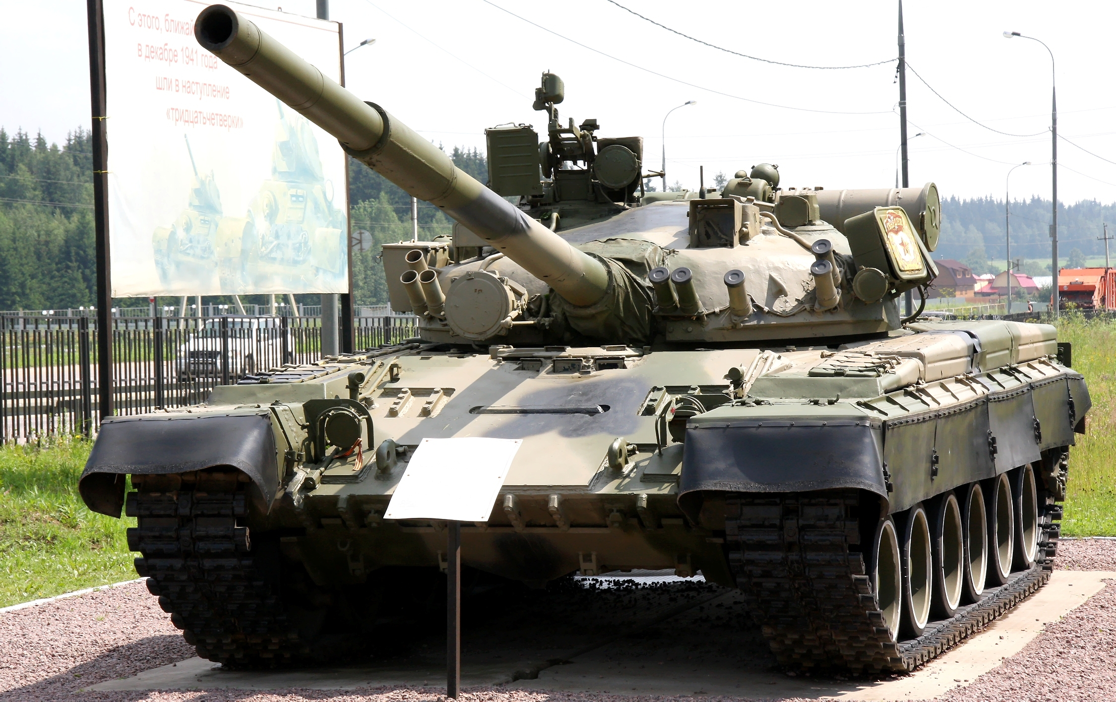 A T-80B in front of the T-34 museum.